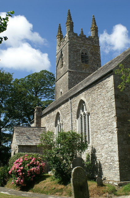 St Swithin's Church, Launcells. Tucked away off the main road from Holsworthy to Stratton and Bude is this church without a village, at Launcells Barton.